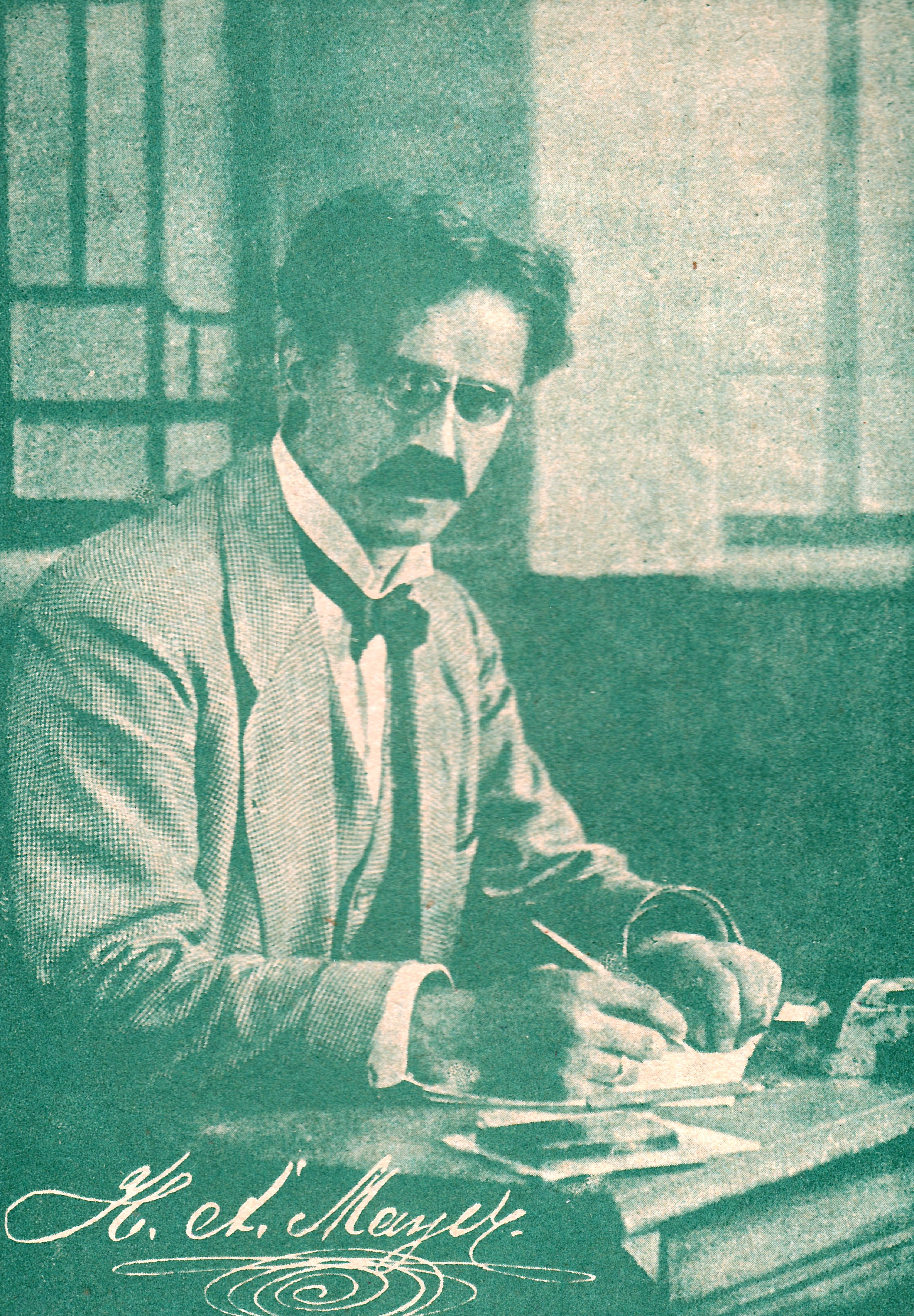 The German author, inventor, philosopher and tradesman Hermann Alois Mayer.